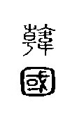 seal of the state of Han